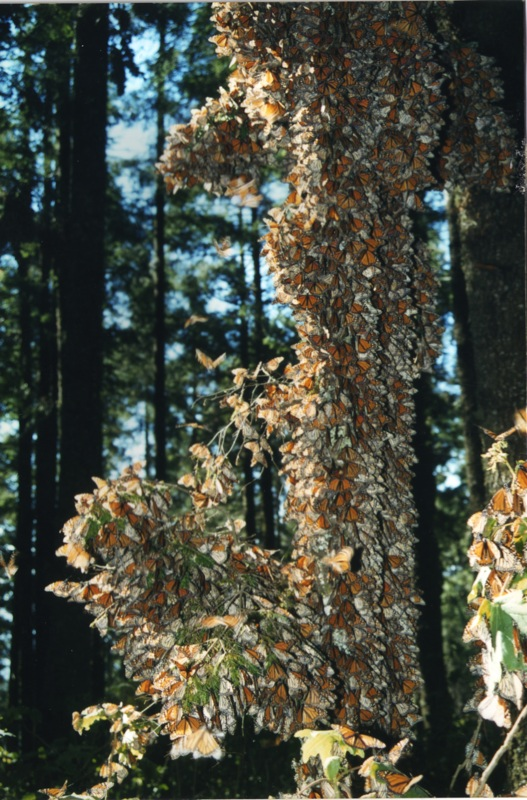 Copyright Raina Kumra, nyc, USA Published under